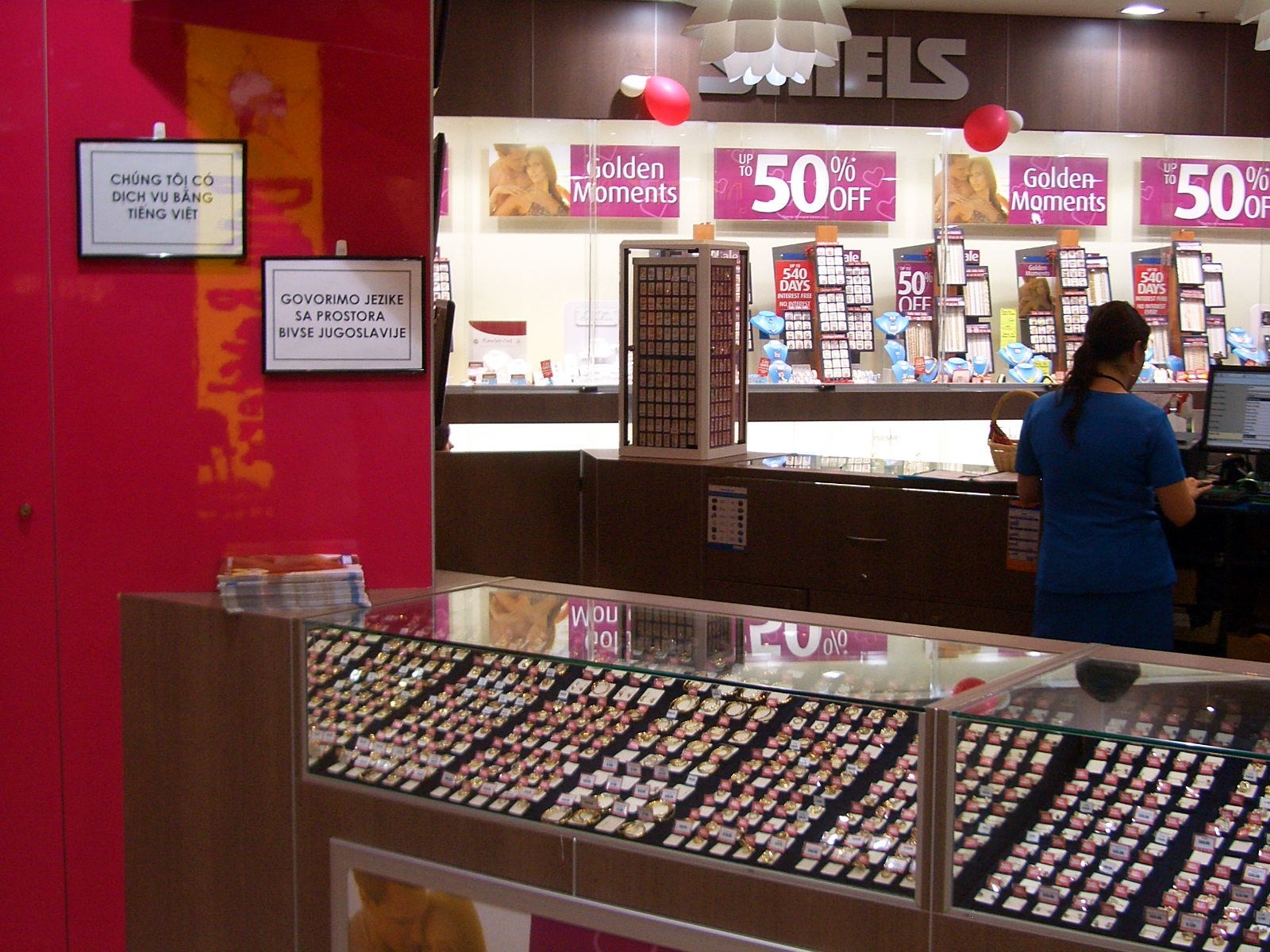 A Jewelry shop in a Centro Mall in Adelaide advertises the staff's ability to speak Vietnamese and the languages "from the area of the former Yugoslavia".